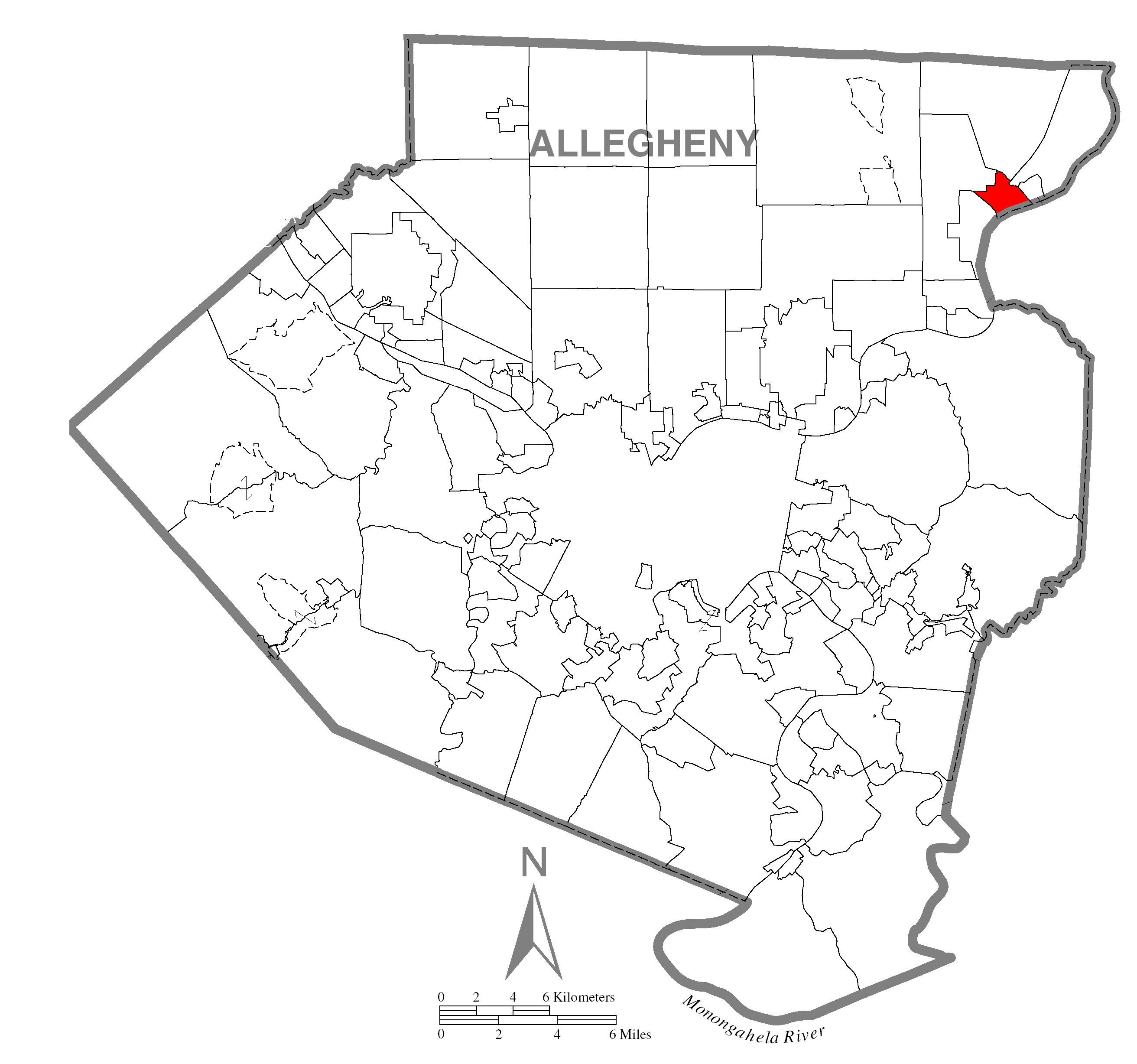 A map of Allegheny County showing Tarentum, Pennsylvania (alternate) highlighted on the map.